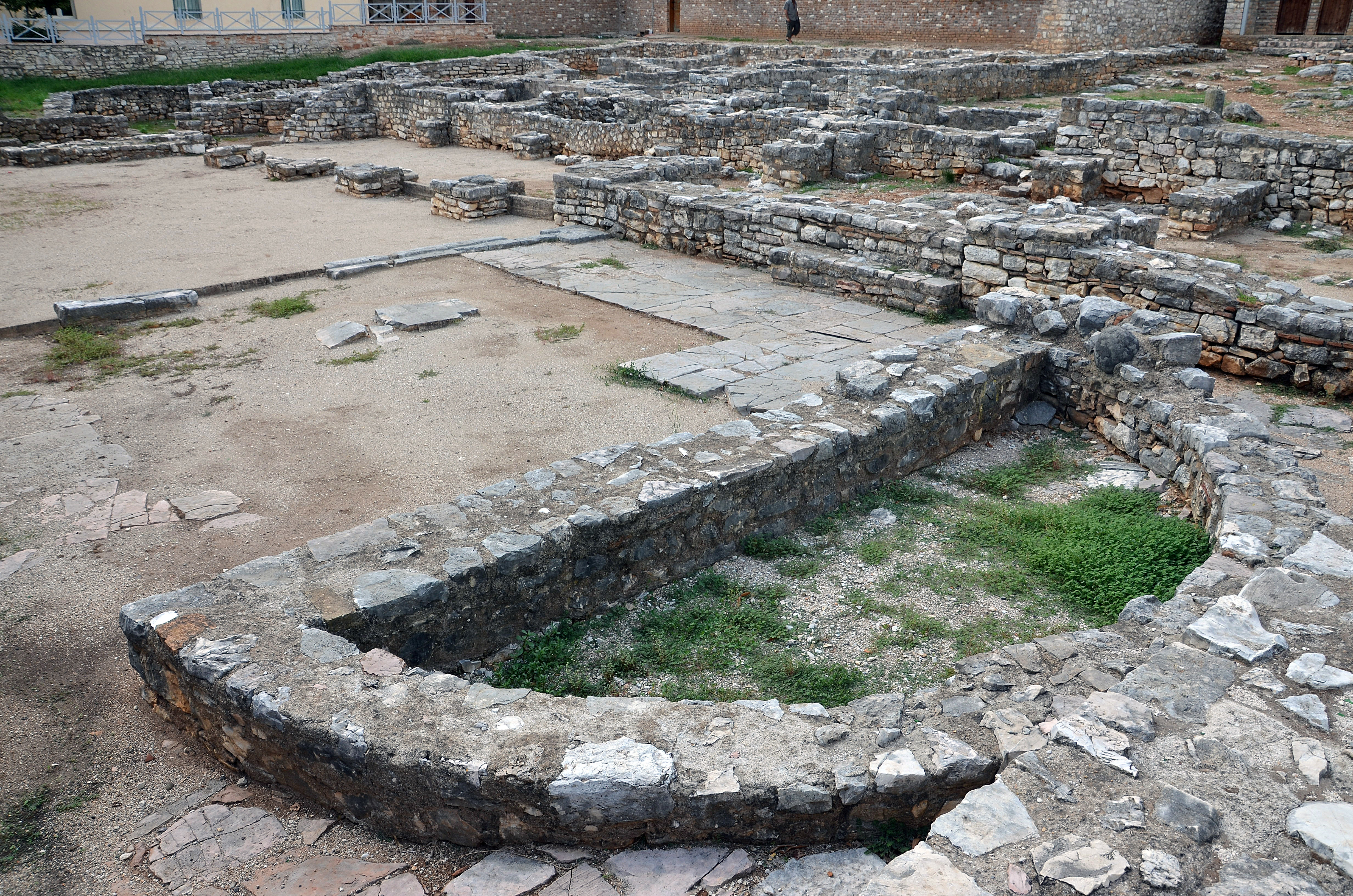 Remains of the 5th century synagogue in Onchesmos, today Sarandë, Albania